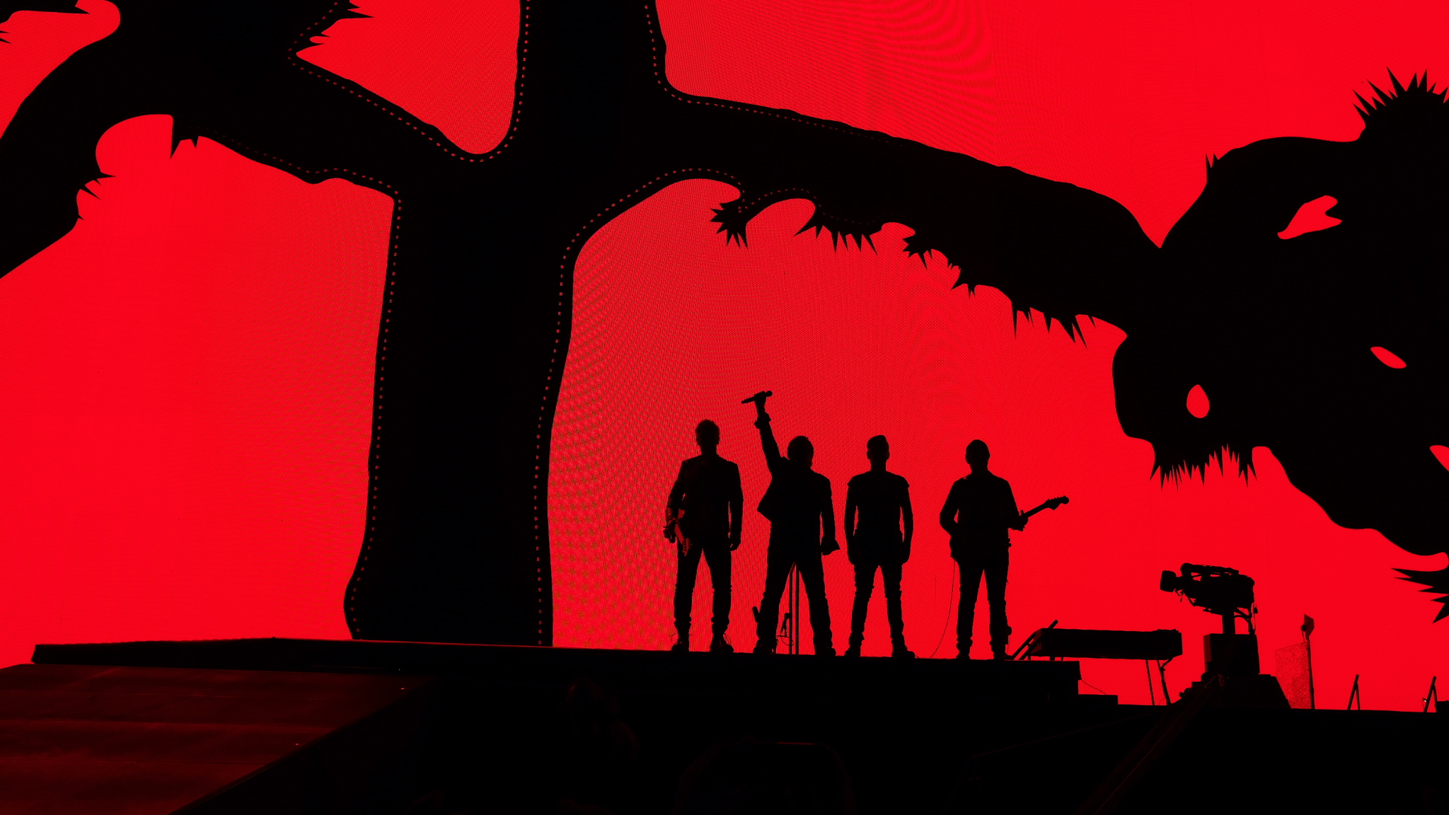 U2 poses prior to a performance of "Where the Streets Have No Name" during a concert at Arrowhead Stadium in Kansas City, MO on the Joshua Tree Tour 2017 on September 12, 2017